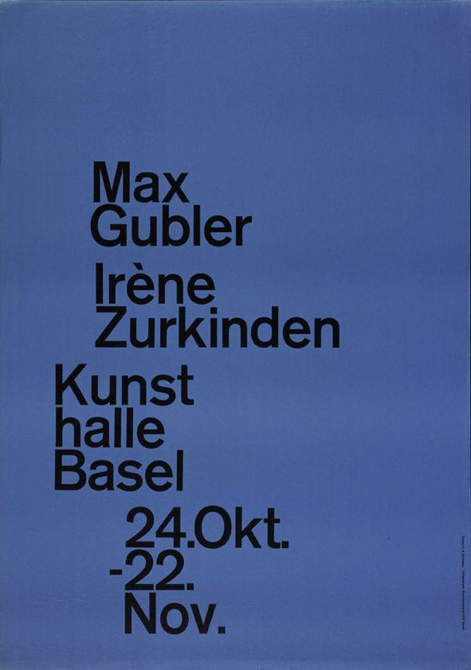 Exhibition poster designed by Armin Hofmann for the Kunsthalle Basel. For an exhibition by Max Gubler (1898–1973) and Irène Zurkinden (1909–1987), 24 October – 22 November 1959. Item 02-0769 in the poster collection of the Museum für Gestaltung Zürich.